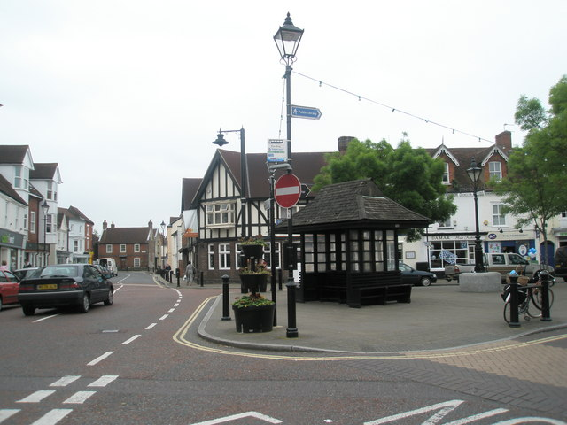 Elegant bus shelter in Emsworth Town Centre